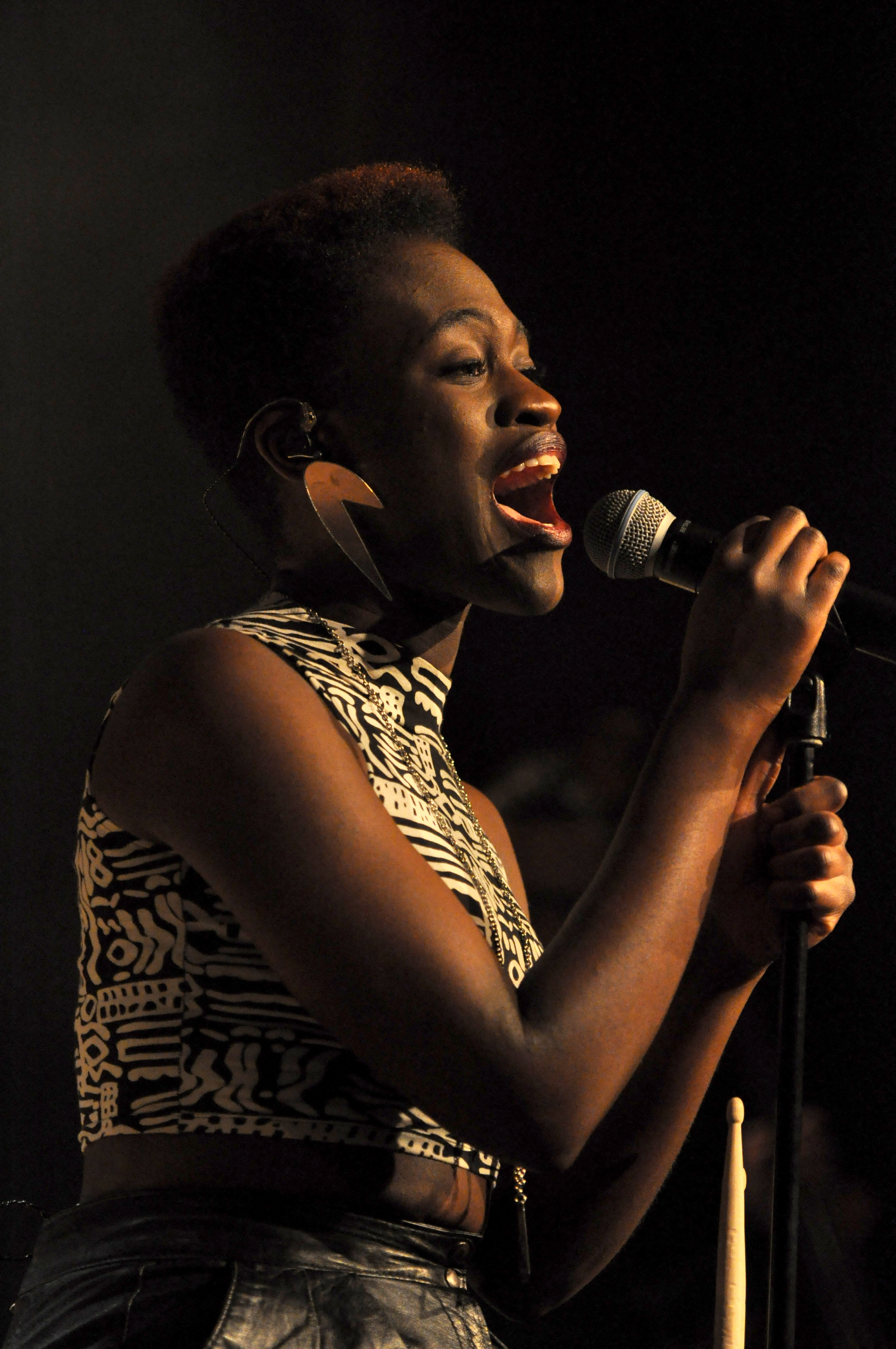 Ivy Quainoo at a concert in Gloria Theater, Cologne, in January 2014